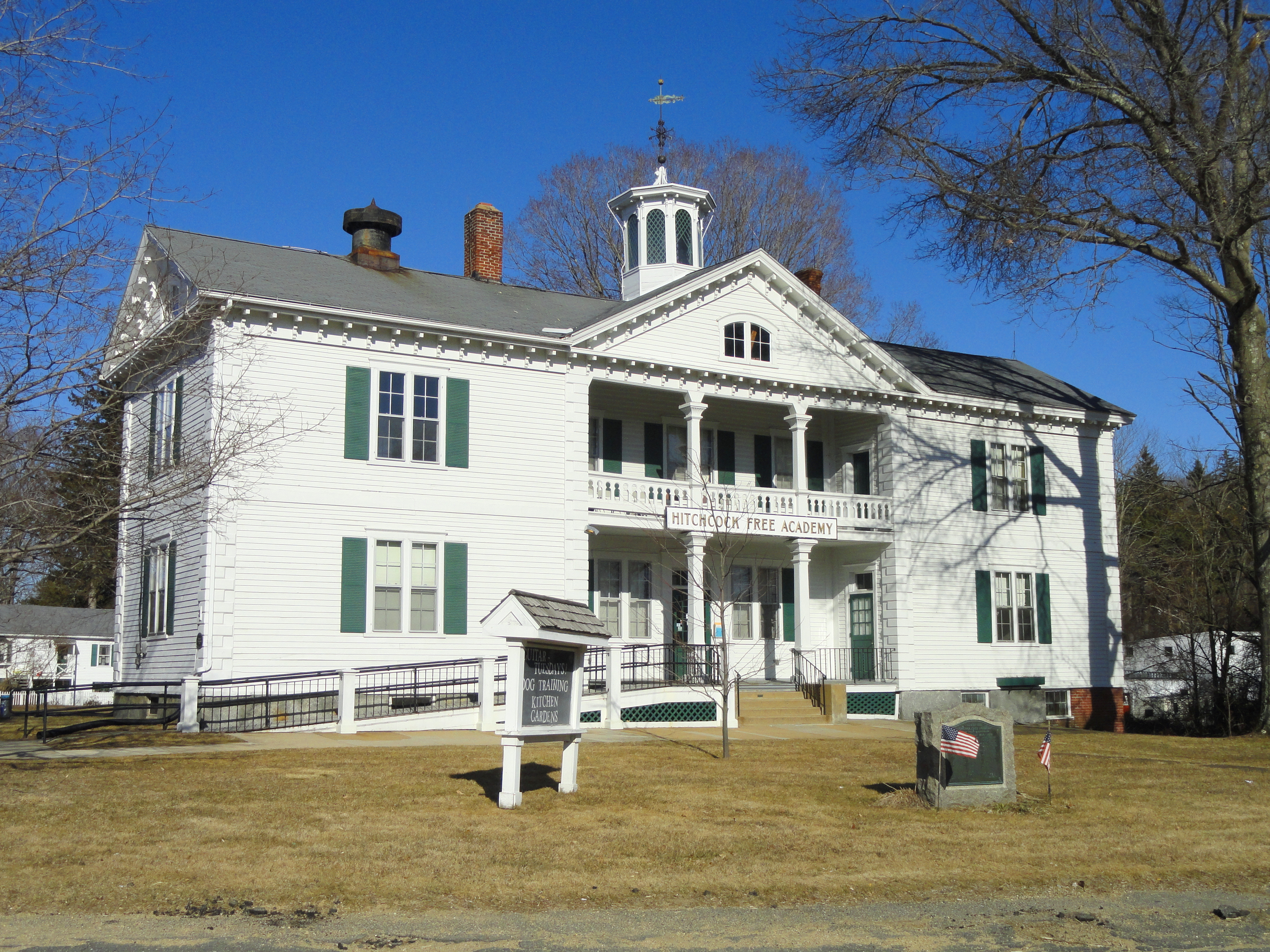 Hitchcock Free Academy, 2 Brookfield Road, Brimfield, Massachusetts, USA. Founded in 1855 by Samuel Austin Hitchcock.